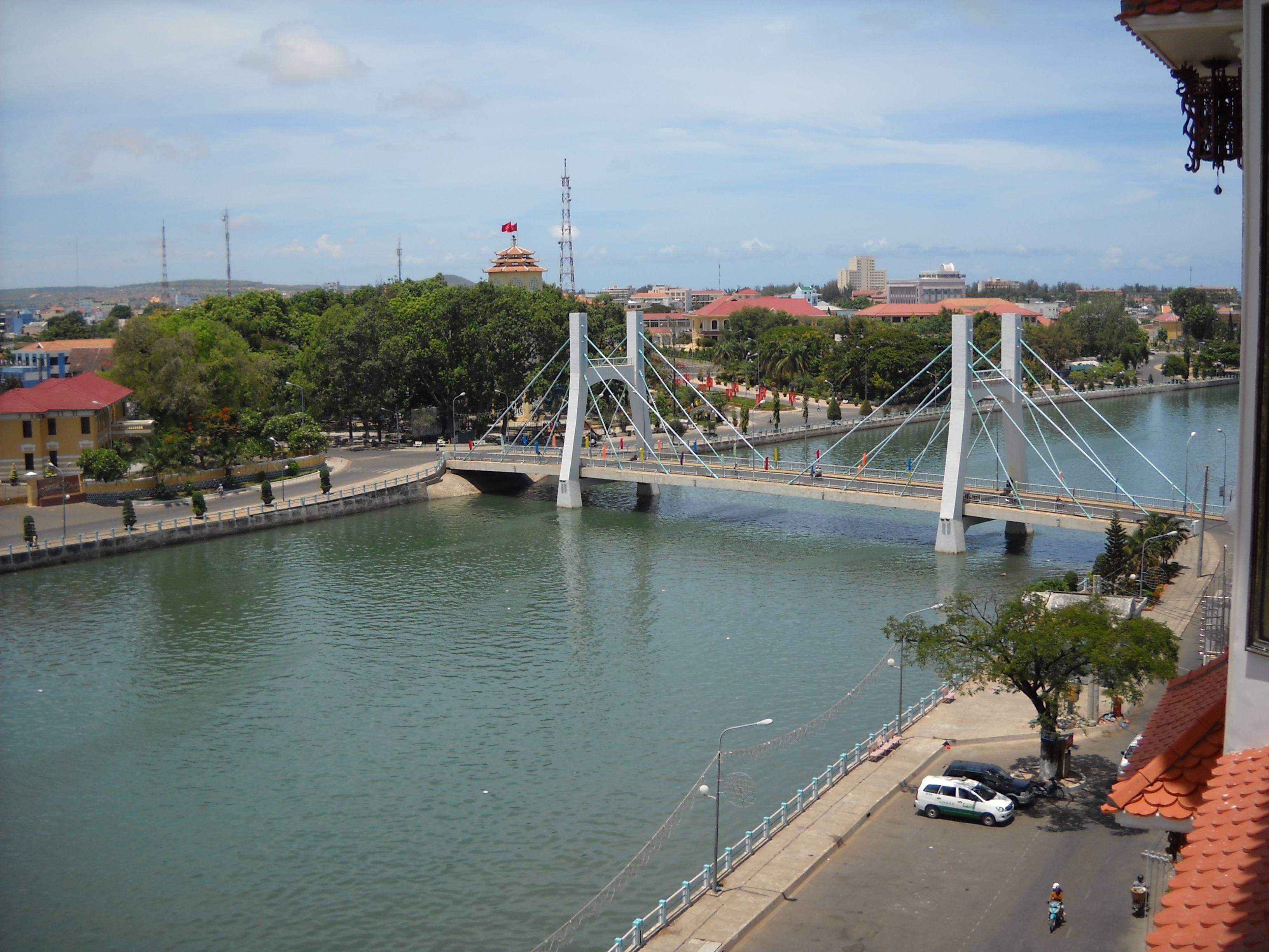 Phan Thiết City and Cà Ty River flows through.